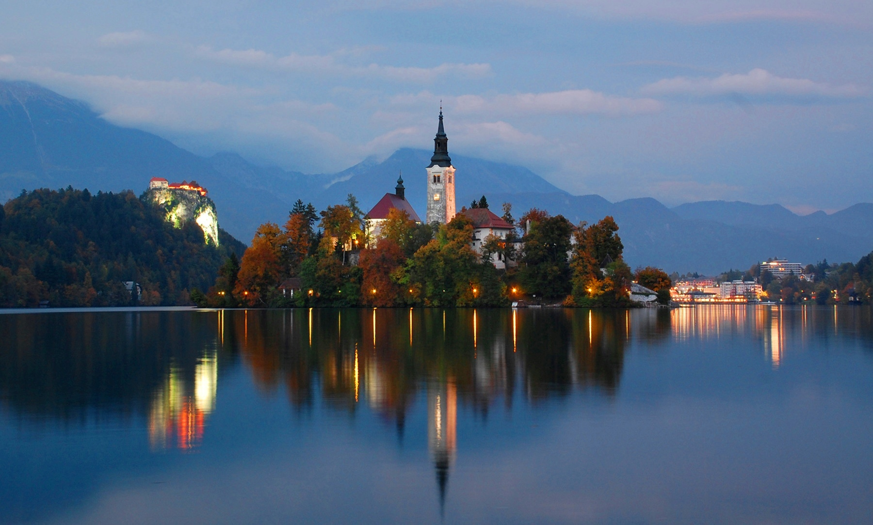 Lake Bled, Slovenia, taken from western end of lake at twilight, Oct. 2013